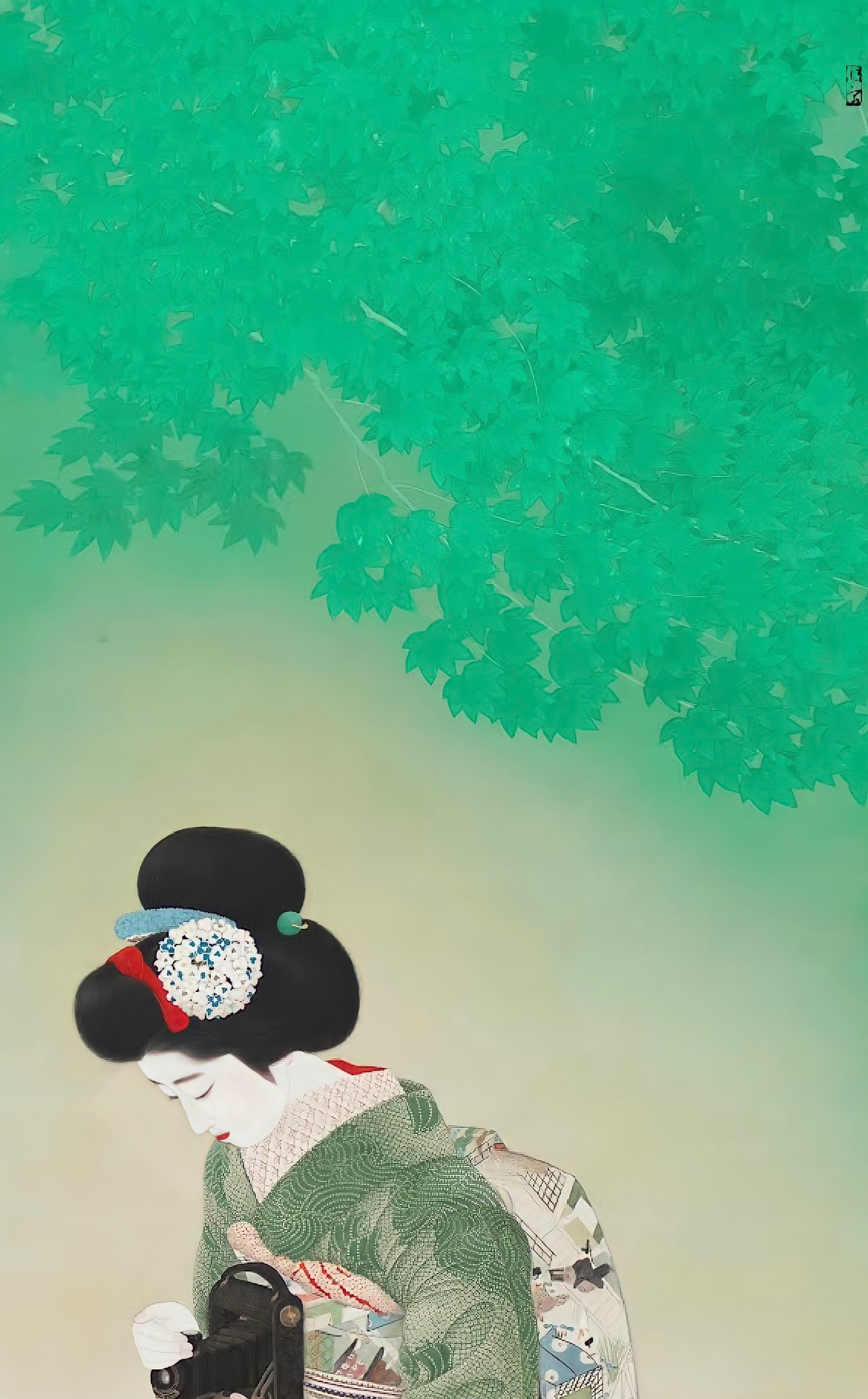 "For Fun", Color painting on silk